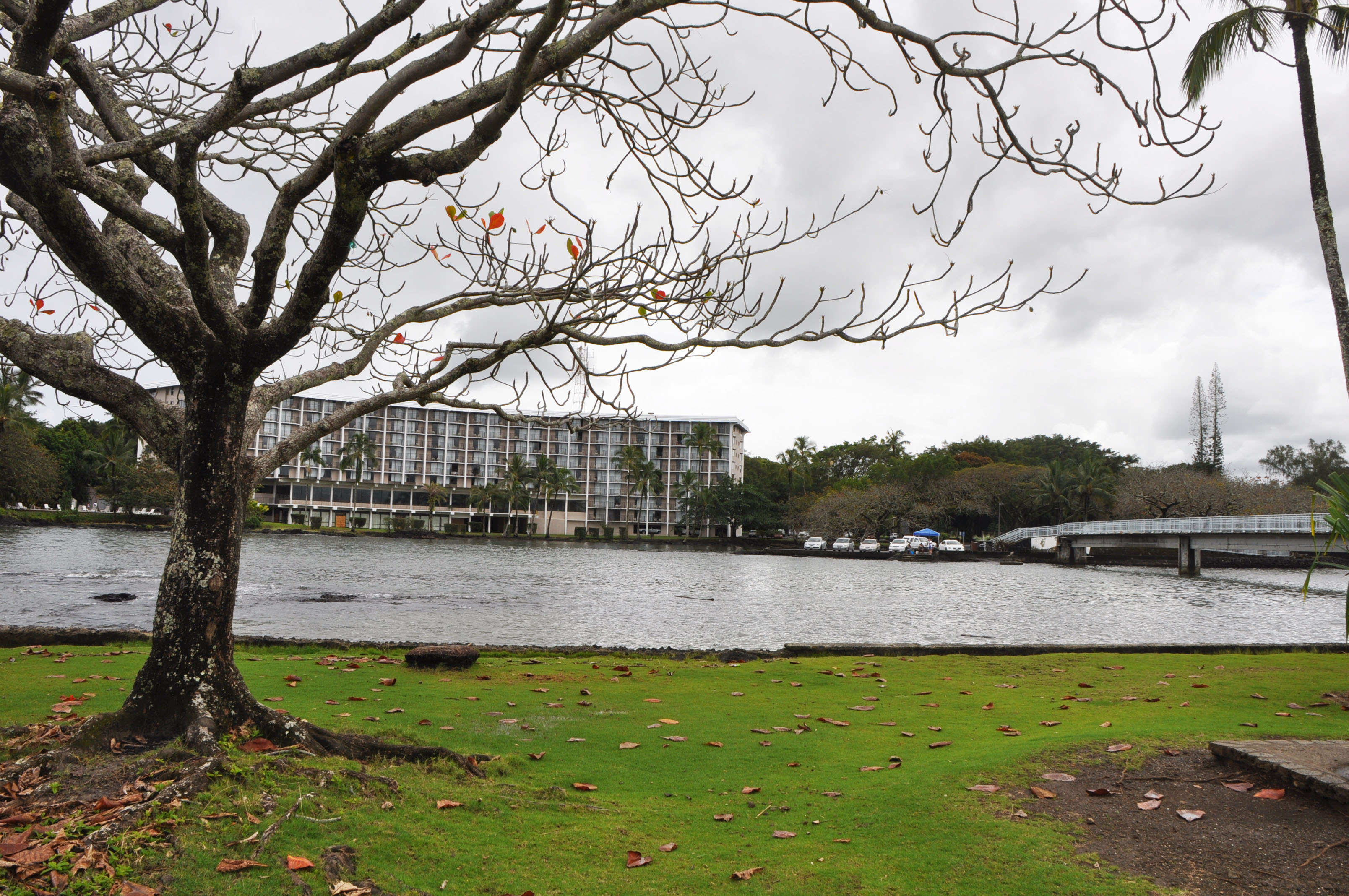 Hilo Hawaiian Hotel on Hilo Bay, Hilo, Hawaii, near the walking bridge to Coconut Island (Hawaii Island) on the right.